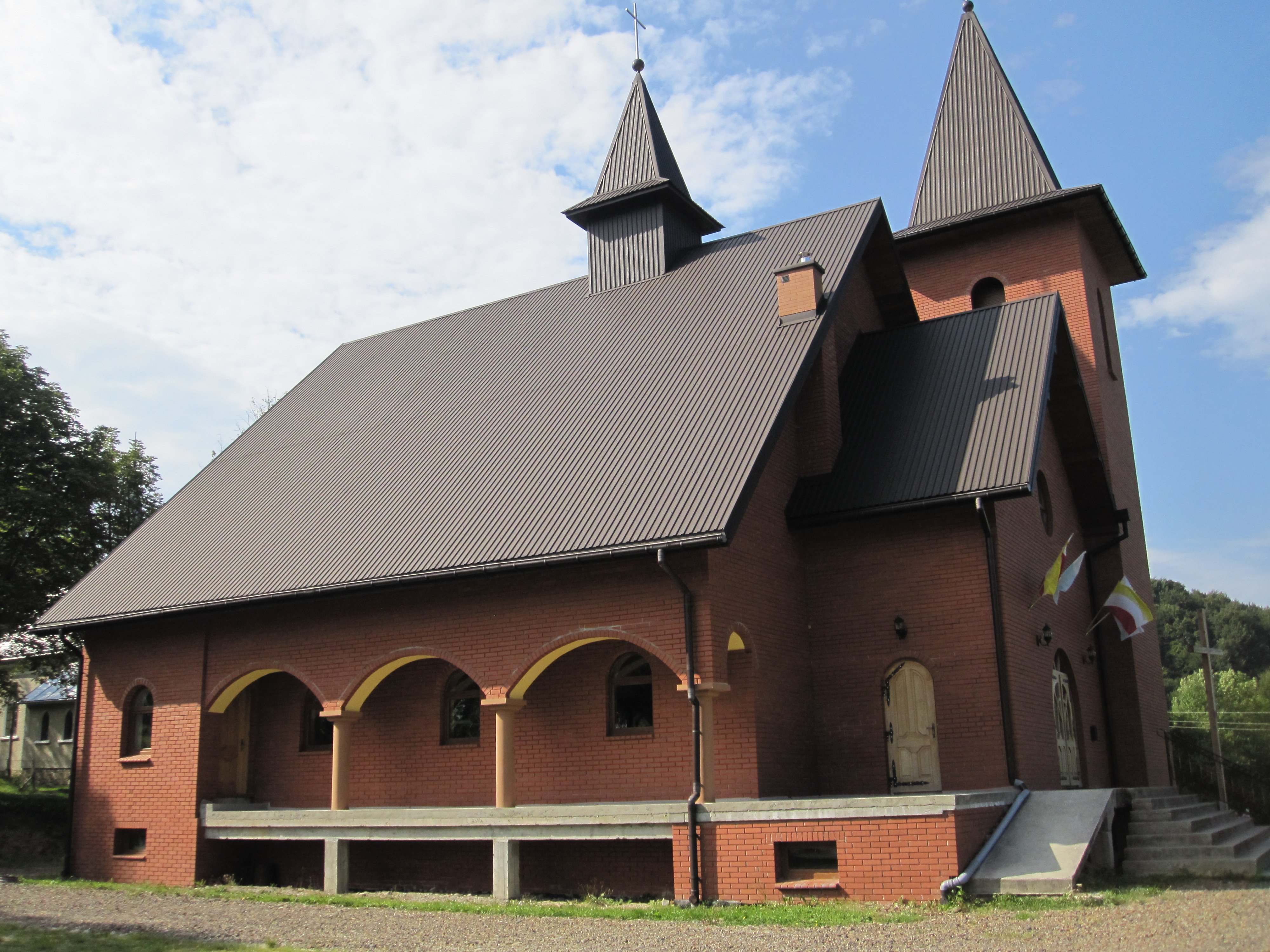 Terka, modern latin church